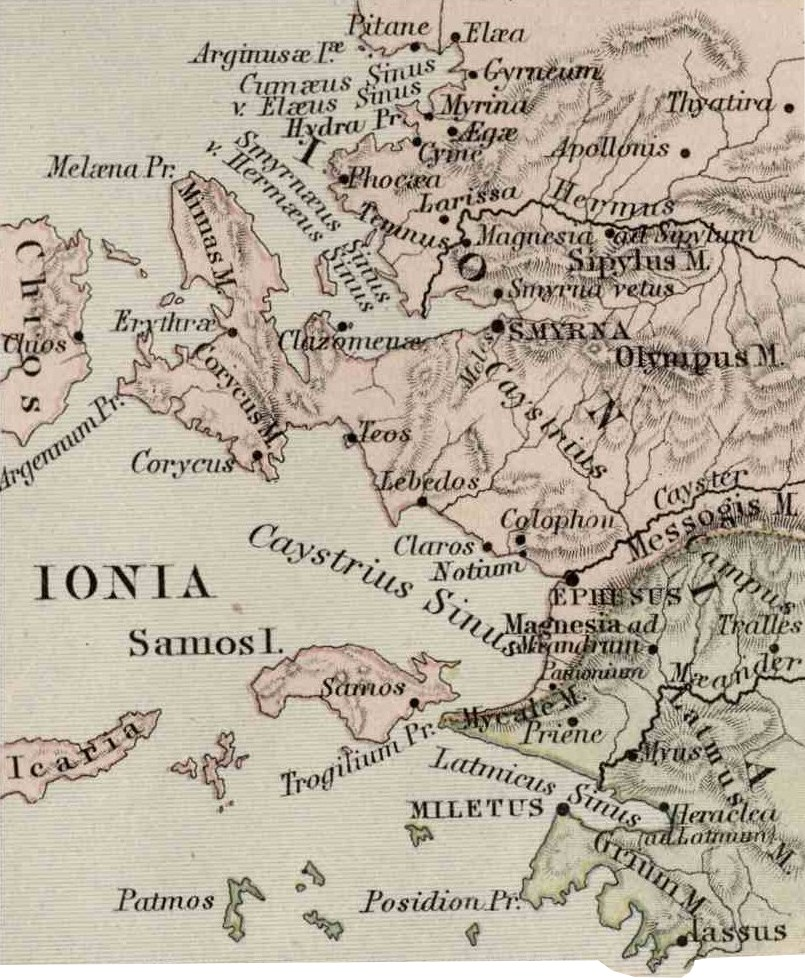 Asia Minor. Including Pontus, Cappadocia, Cilicia, Pisidia, Lycia, Caria, Lydia, Mysia, Bithynia, Paphlagonia, Phrygia, and Crete. "These color maps are 11" x 13.5" when printed at 300dpi. They were copied from an original 1886 Ginn & Company Classical Atlas designed by mapmaker Keith Johnston. These maps are completely Public Domain and can be used absolutely without restriction or even sold commercially without my permission. (There is slight distortion caused by the age of the original and merging the scans (two scans per map)" Information from